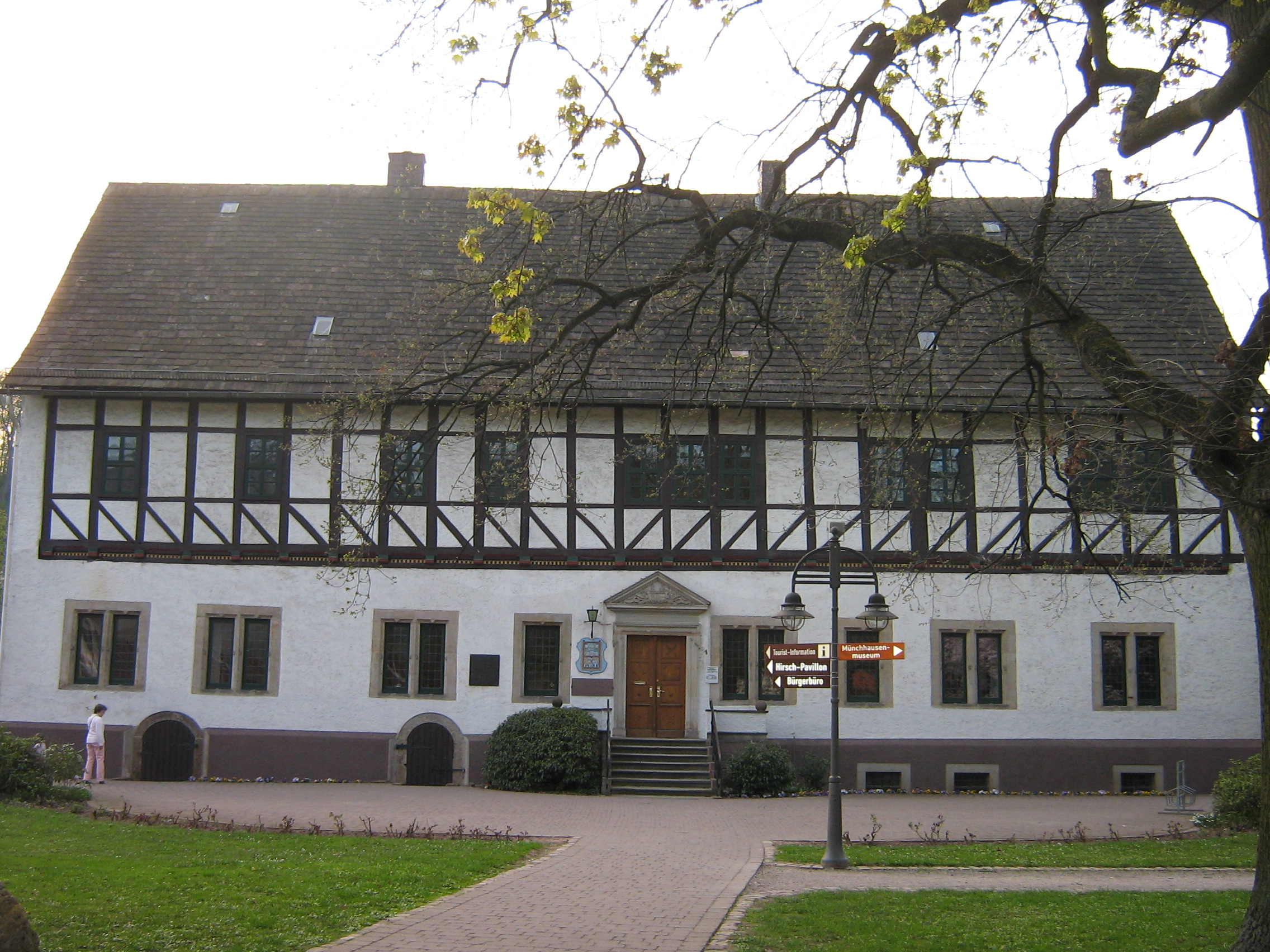 City Hall of Bodenwerder, Lower Saxonia, Germany. The house where Baron Münchhausen was born